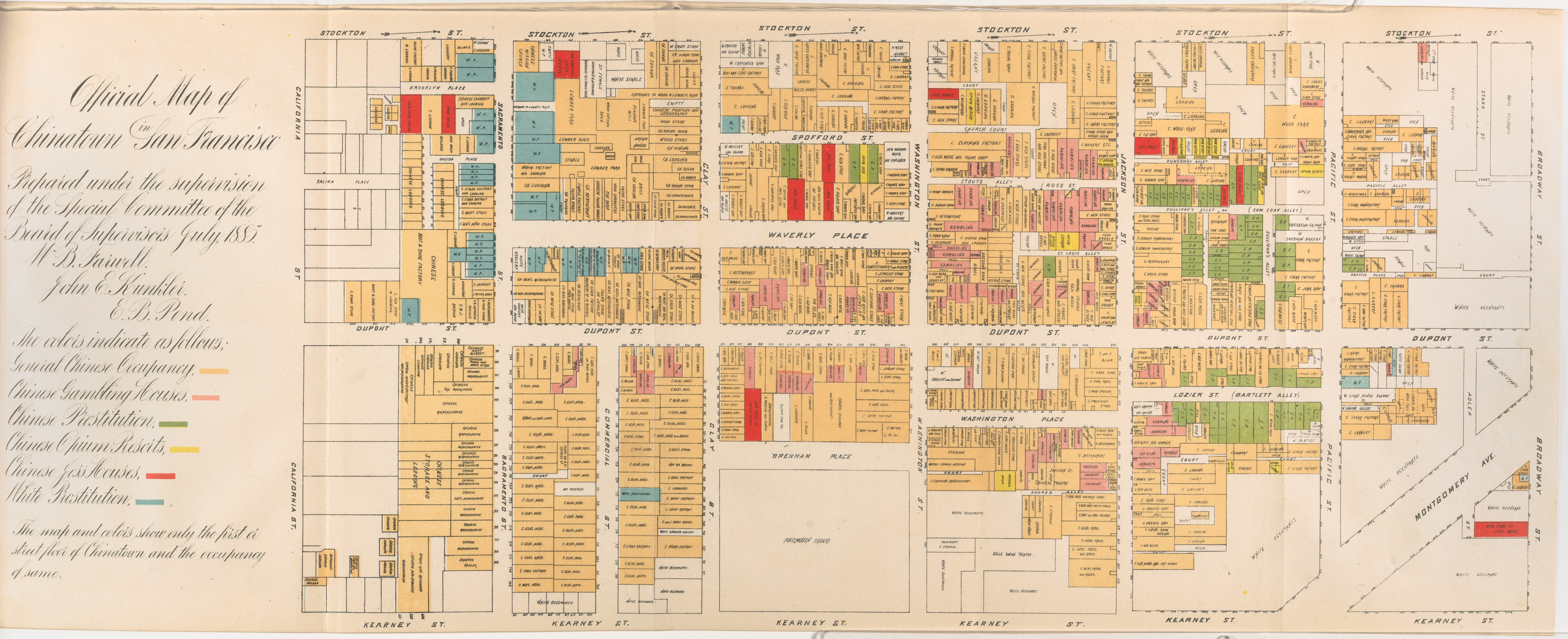 This map mirrors the bias against the Chinese in California. It was published as part of an official report of a Special Committee established by the San Francisco Board of Supervisors "on the Condition of the Chinese Quarter".